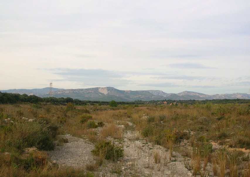 Rambla de Cervera, dry river close to La Jana